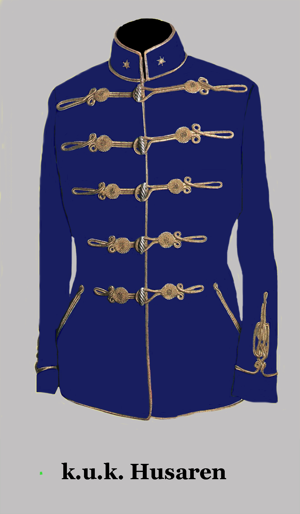 Dark-Blue Tunic of a Lieutenant of the k.u.k. Hussars